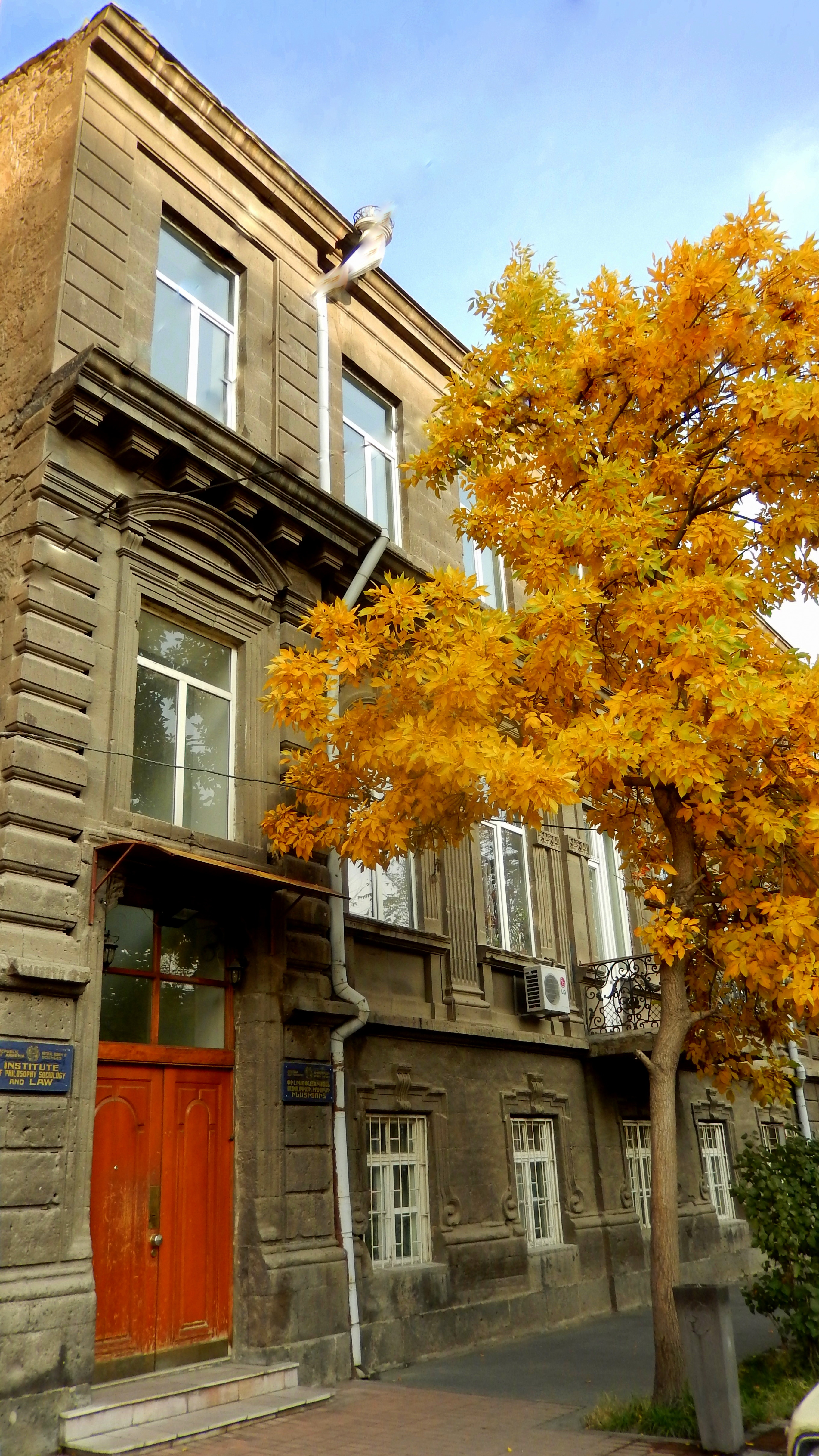 Institute of Philosophy, Sociology and Law of NAS RA in Yerevan, Arami street, downtown